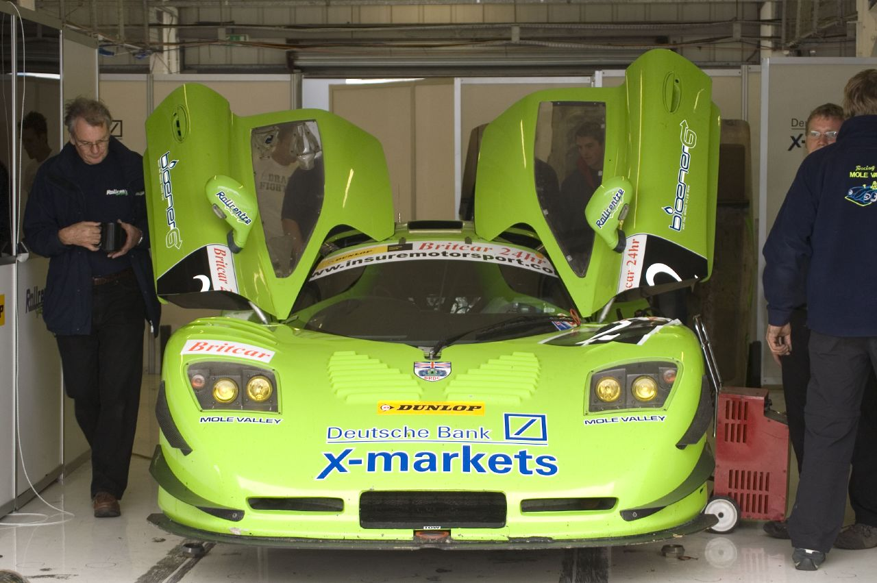 A Mosler MT900R at the BritCar 24 Hours at Silverstone Circuit